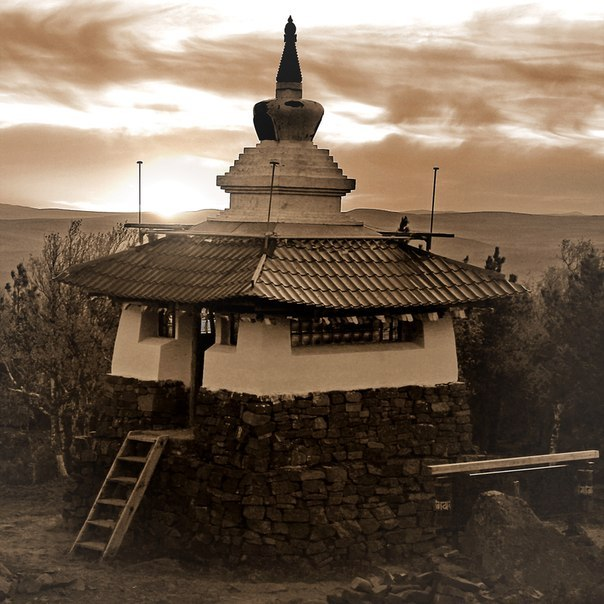 Shad Tchup Ling Buddhist monastery